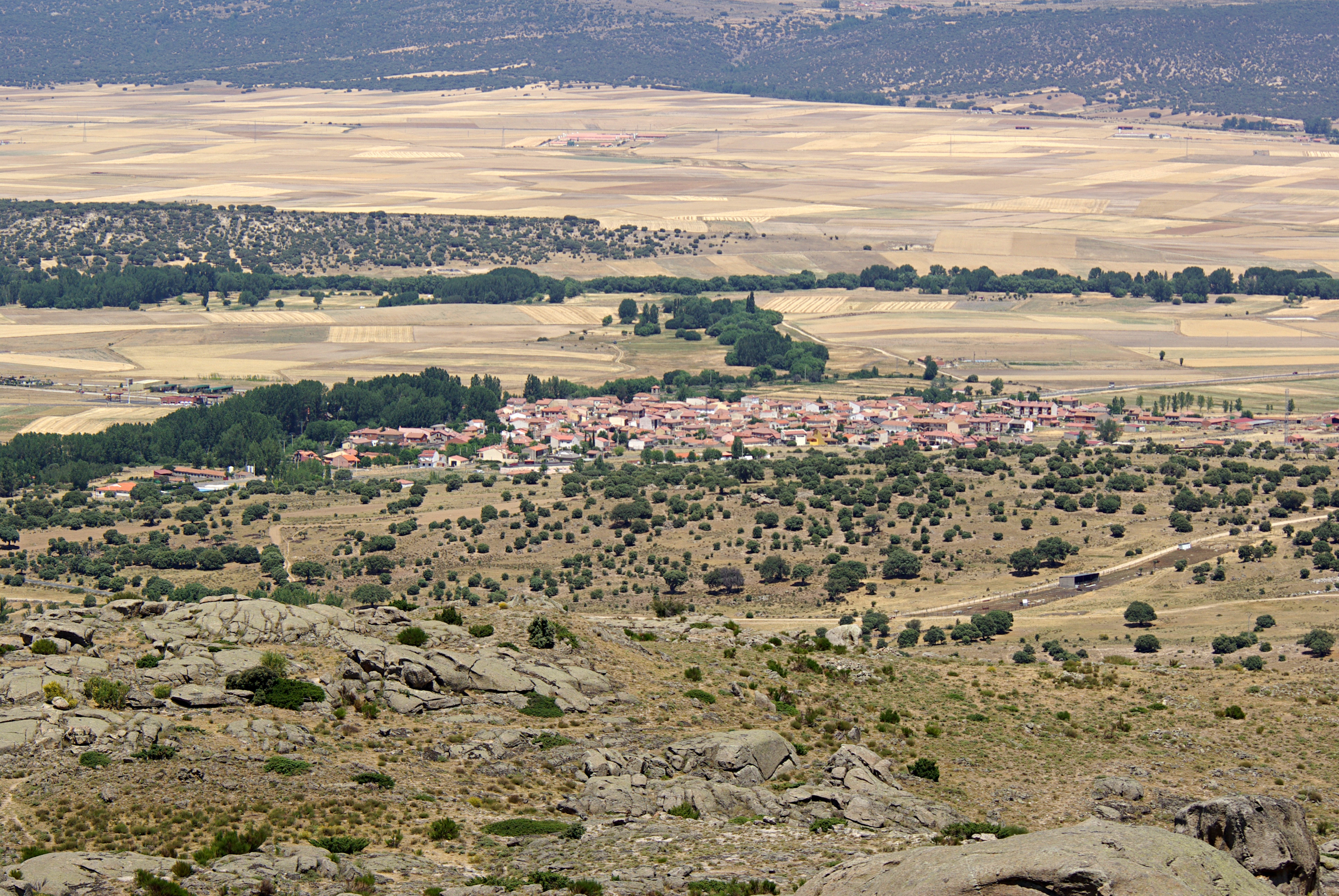 View of Solosancho from Ulaca's hill fort. (Ávila, Spain)